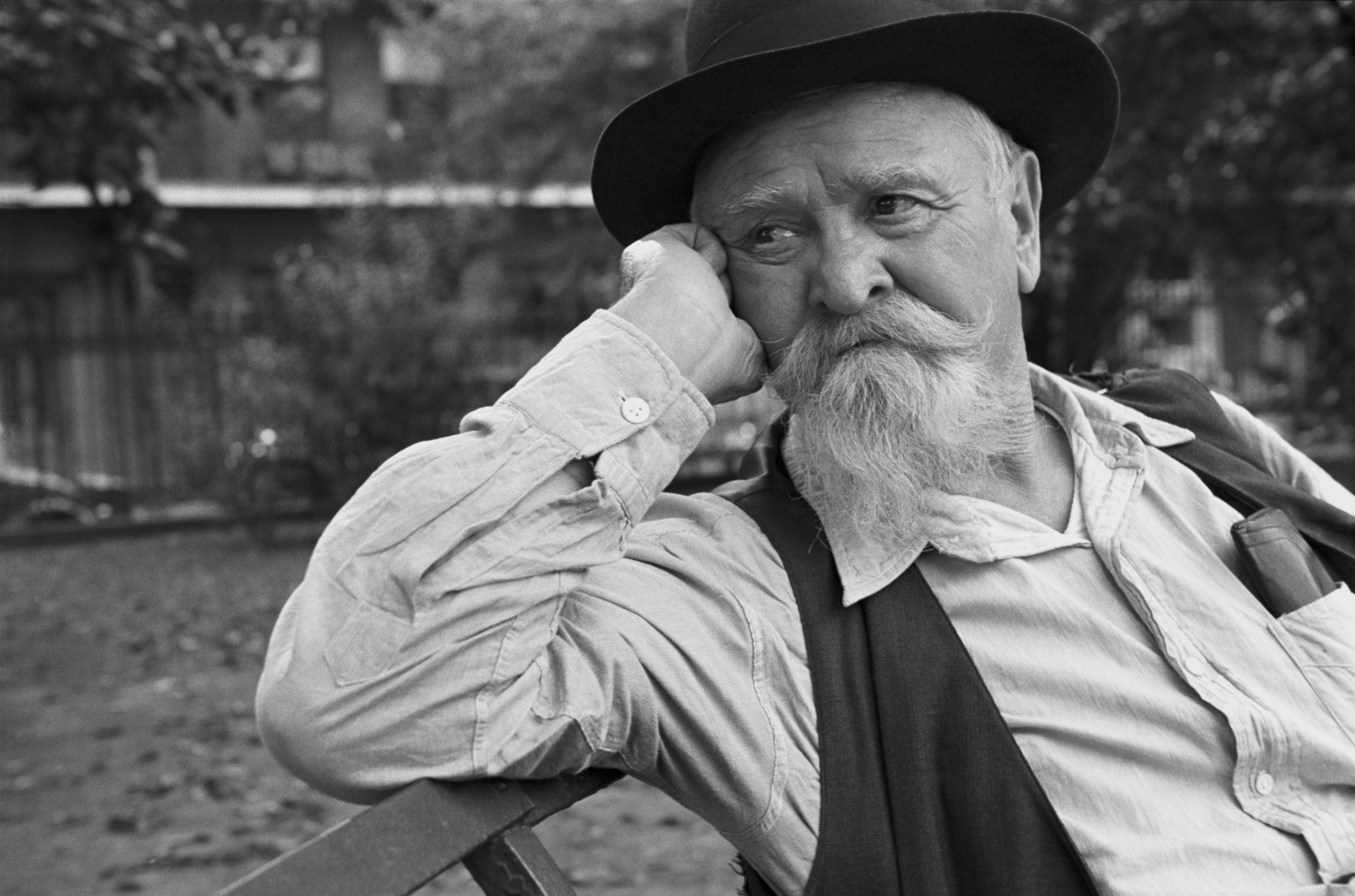 "An old sailor snapped in Jackson Square, New Orleans"